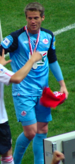 Mickael Landreau (LOSC), football player